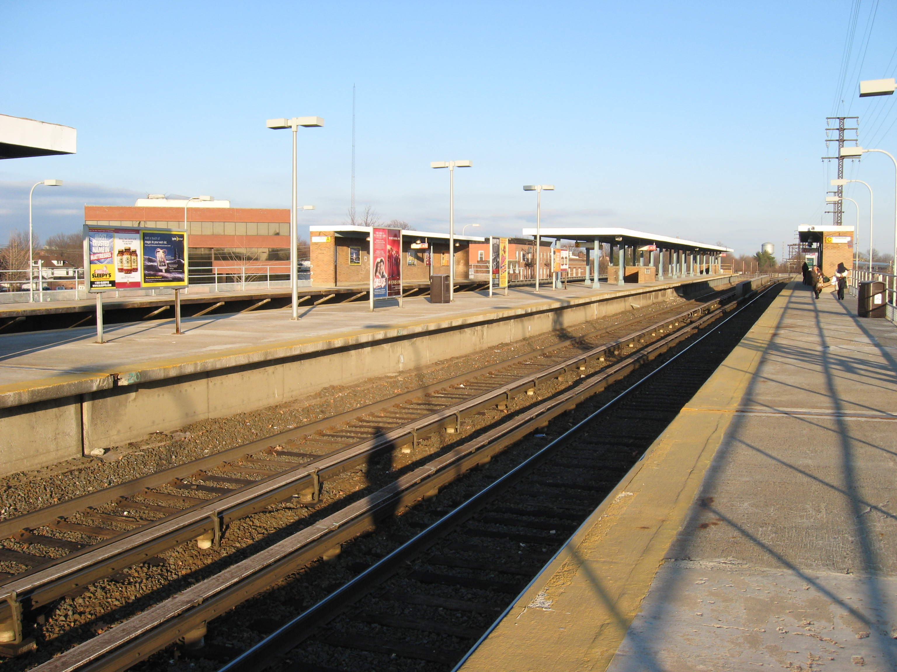 This is the Floral Park Station on the Long Island Rail Road in Floral Park, New York.